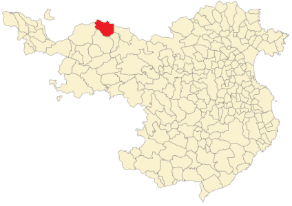 Setcases